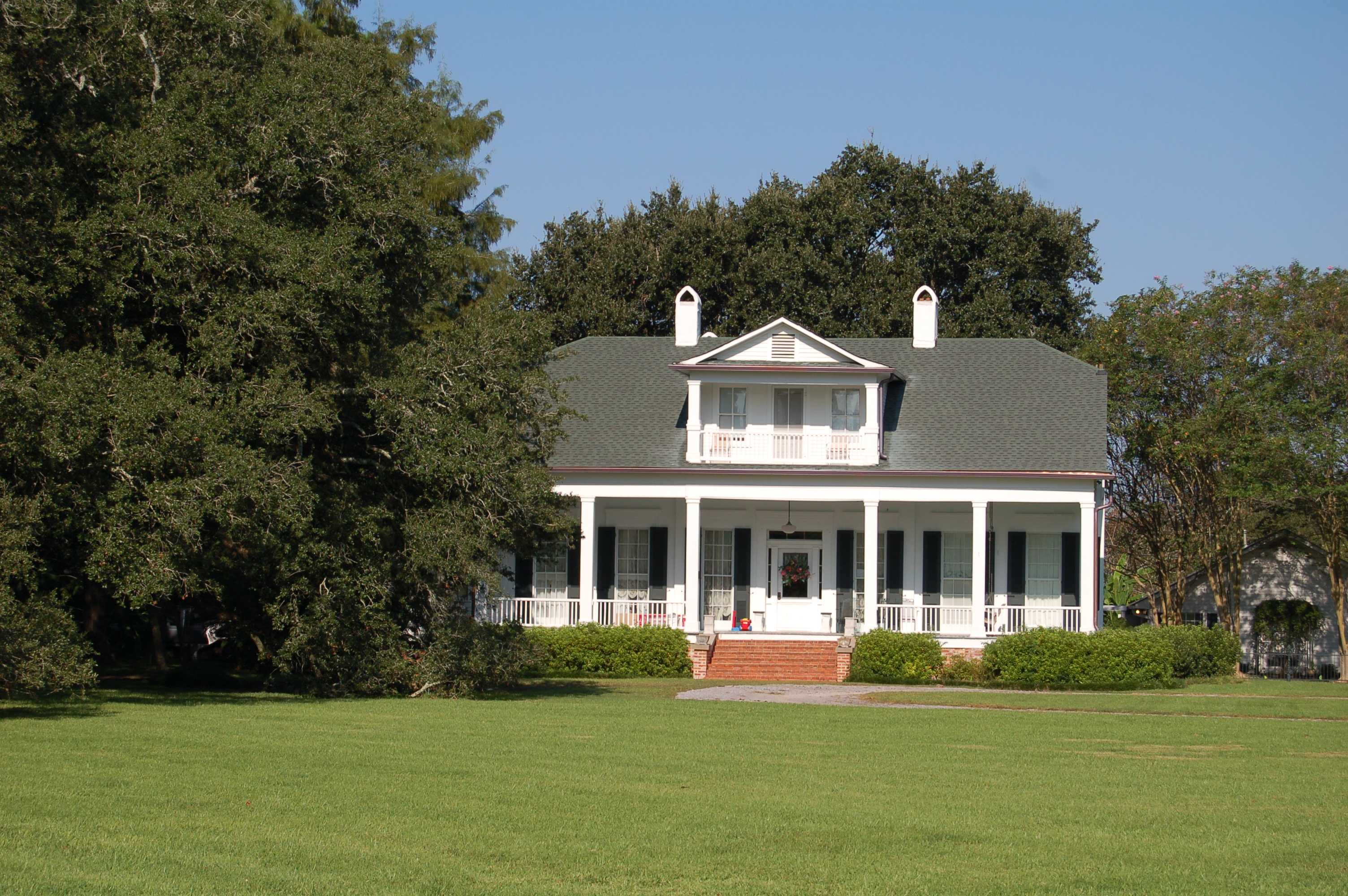 Sandbar Plantation House, 4234 S. River Rd. Port Allen